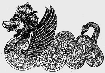 Illustration of Antaboga, the dragon-snake from pre-Islam Javanese Mythology